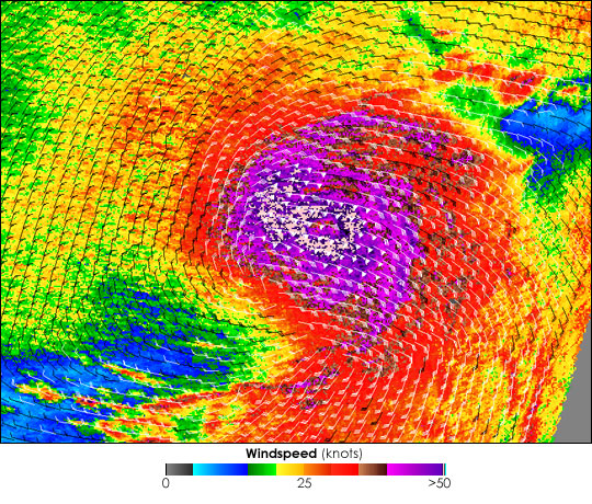 This colorful image shows the near-surface winds generated by Typhoon Nesat 10 meters above the ocean. The highest wind speeds, shown in dark purple and light pink, circle the center of the storm with barbs showing the direction of the winds. White barbs near the center of the storm indicate areas of heavy rain.